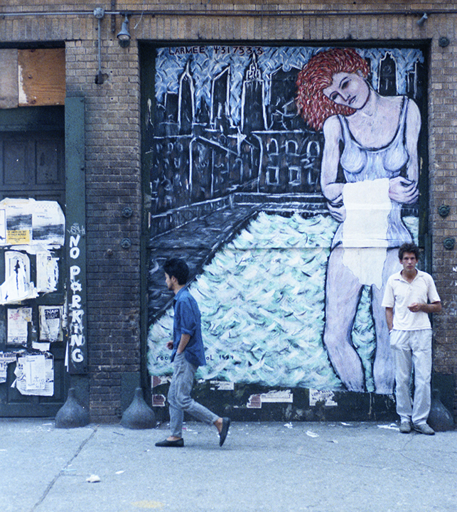 A photo of Kevin Larmee standing in front of one of his street paintings in 1984.